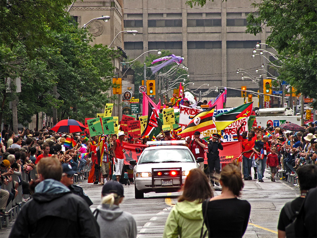 Pride Parade turning off Yonge Street onto Gerrard Street. Toronto, Canada.